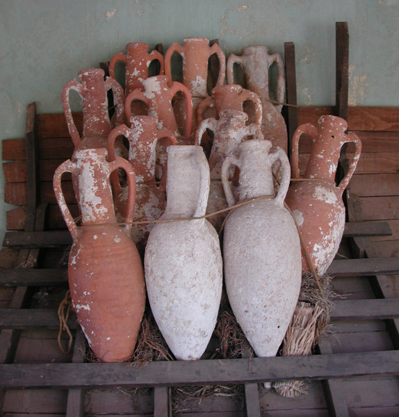 Amphorae on display in Bodrum Castle, Turkey